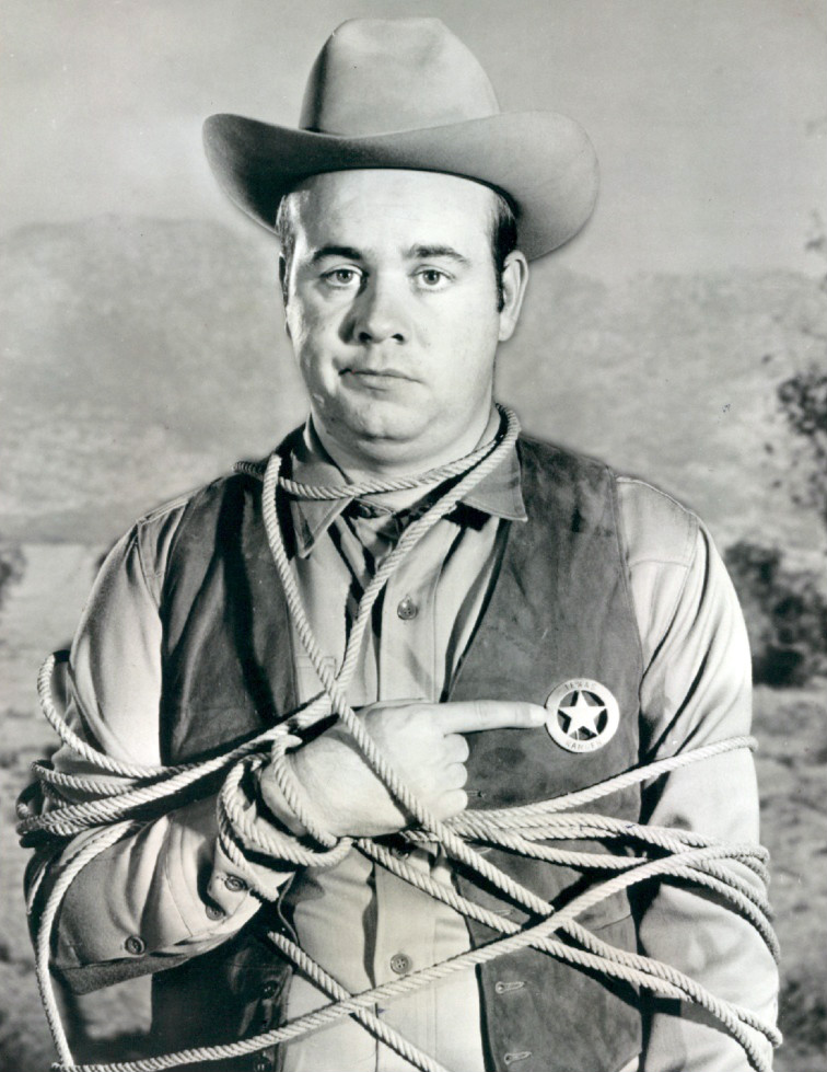 Photo of Tim Conway as Rango from the short-lived television program of the same name.